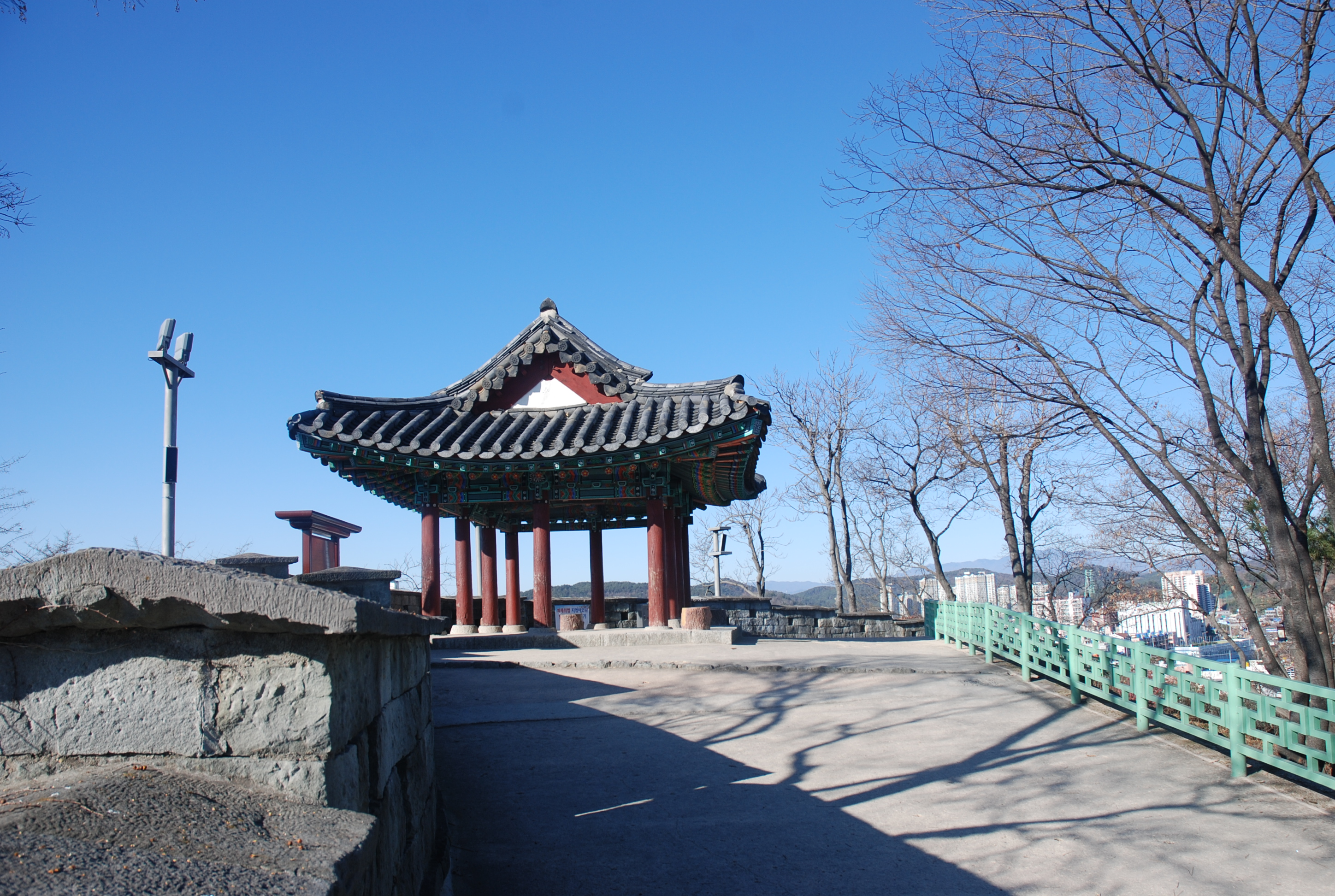 Jinju castle West Headquarters